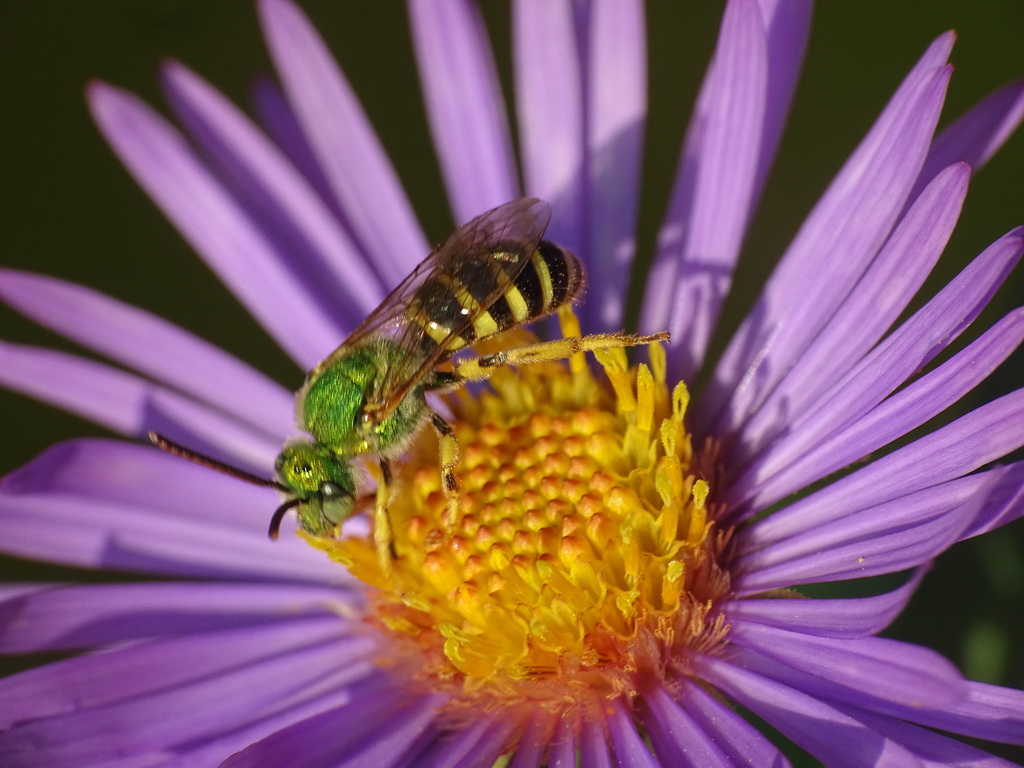 Sweat Bee (Agapostemon) on New England Aster (Symphyotrichum novae-angliae), Mississauga, Ontario, Canada. Original